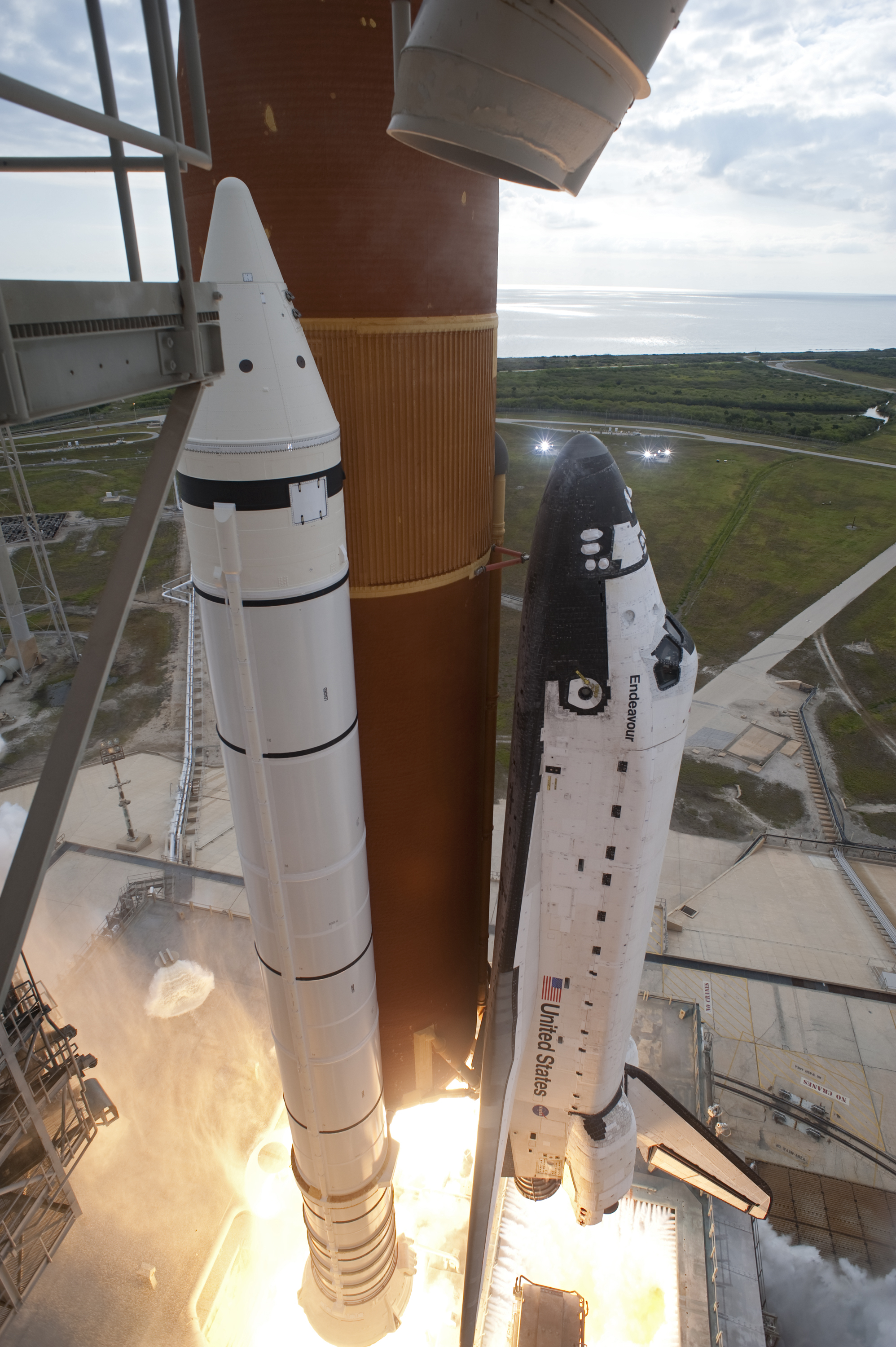 CAPE CANAVERAL, Fla. -- Space shuttle Endeavour's main engines and solid rocket boosters burst to life lifting the shuttle from Launch Pad 39A at NASA's Kennedy Space Center in Florida. Endeavour began its final flight, the STS-134 mission to the International Space Station, at 8:56 a.m. EDT on May 16. Endeavour and its six-member crew will deliver the Alpha Magnetic Spectrometer-2 (AMS), Express Logistics Carrier-3, a high-pressure gas tank and additional spare parts for the Dextre robotic helper to the space station.